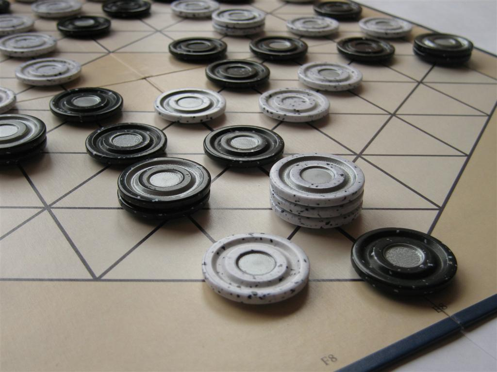 Detail of the Tzaar board and pieces